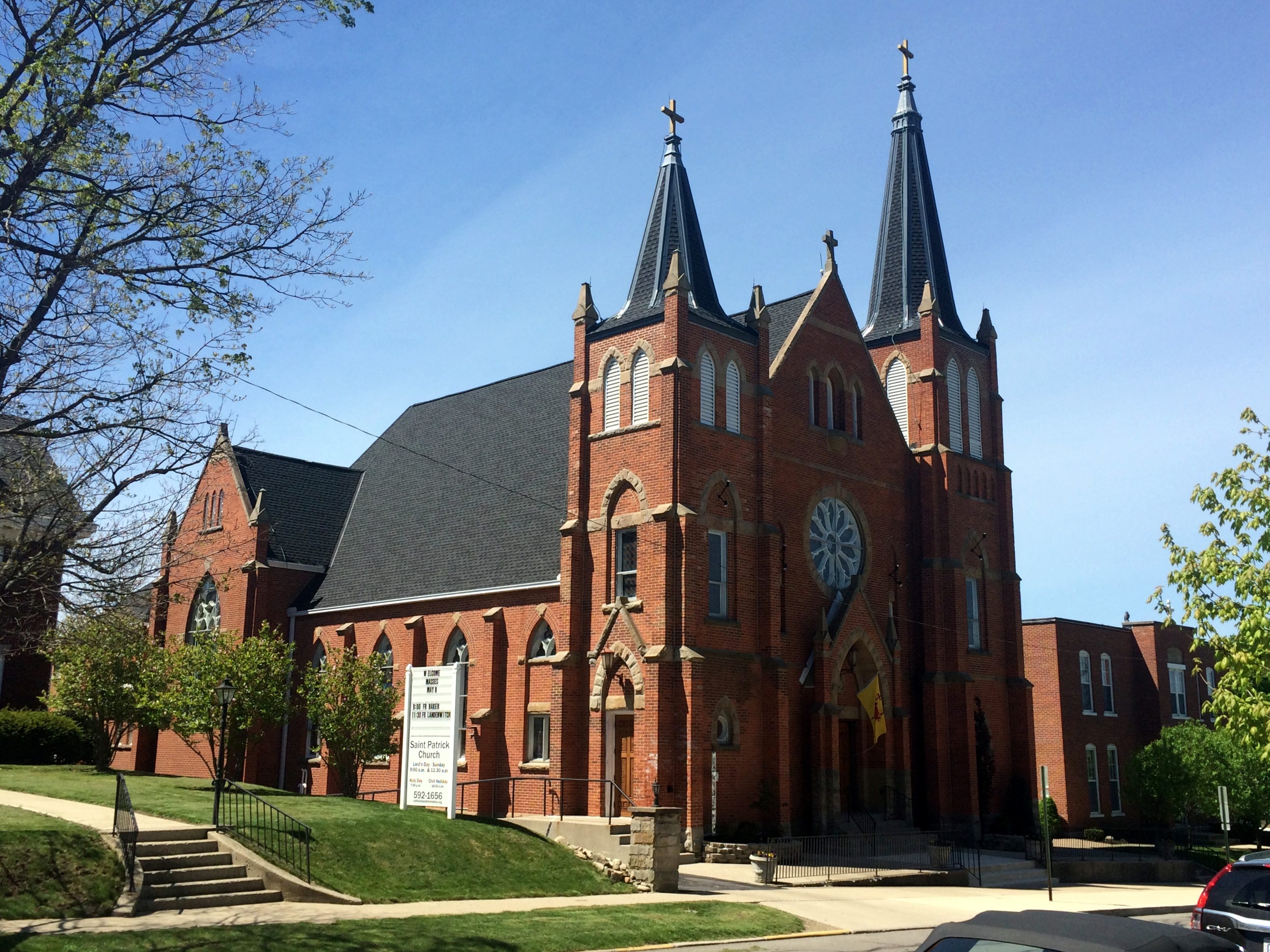 Saint Patrick Church (Bellefontaine, Ohio) - exterior in springtime